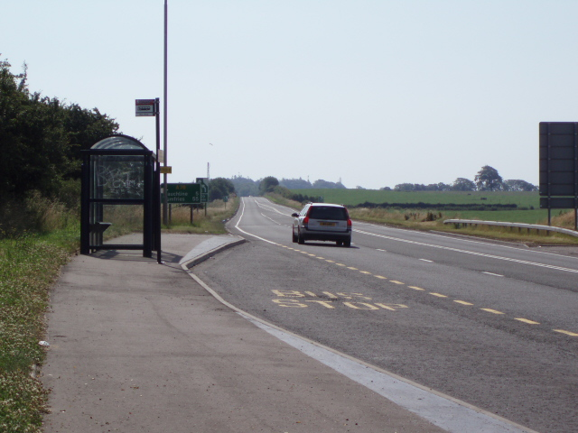 Bus stop. Bus stop heading south on the A76 at Crossroads